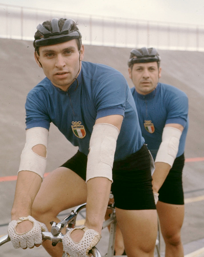 Sergio Bianchetto and Angelo Domiano at the Tokyo Olympics. Tokyo, October 1964